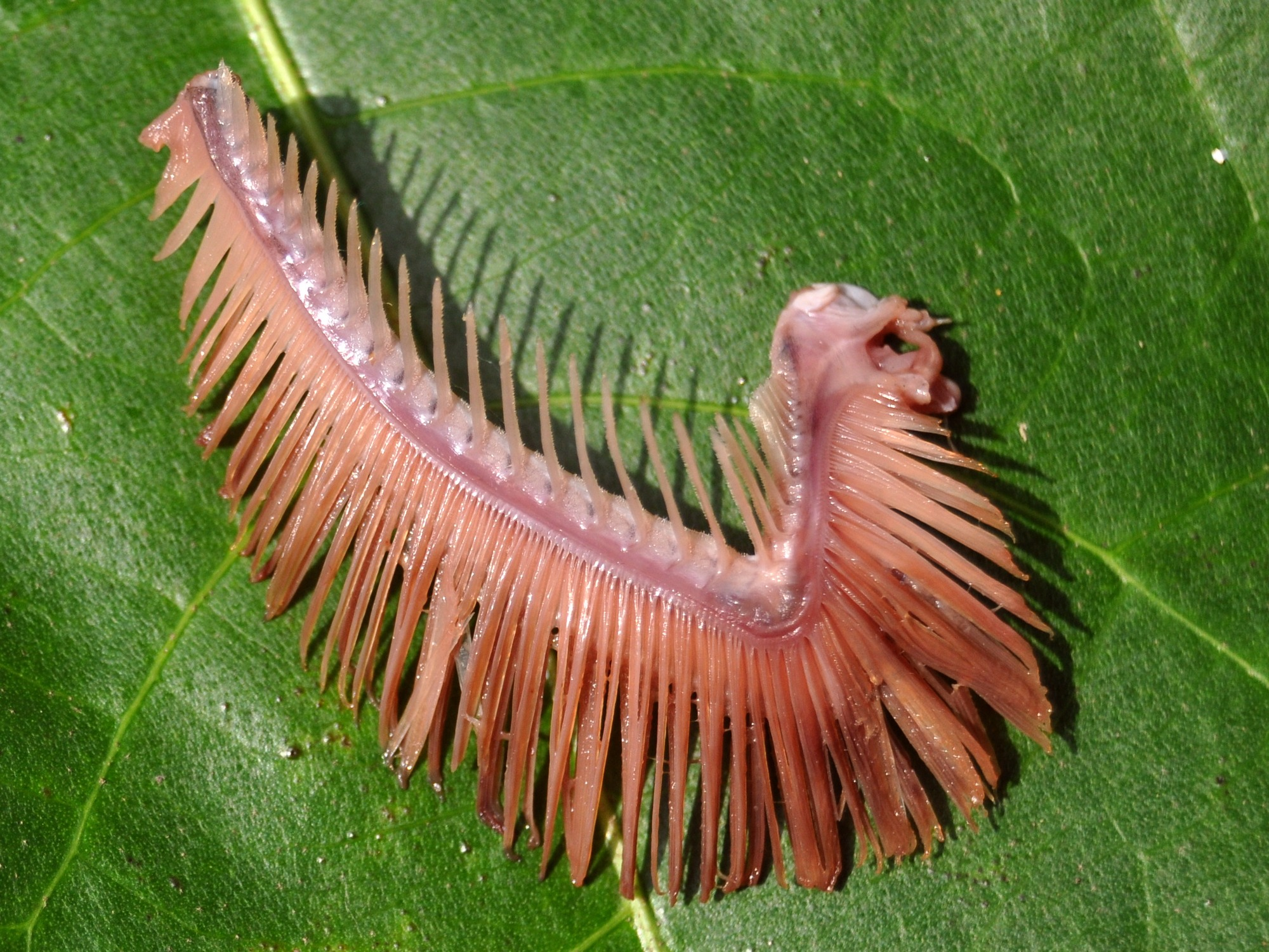 Thunnus obesus, juvenile 22cm FL; from a local market in Bogor, West Java, Indonesia. 1st left gill arch.